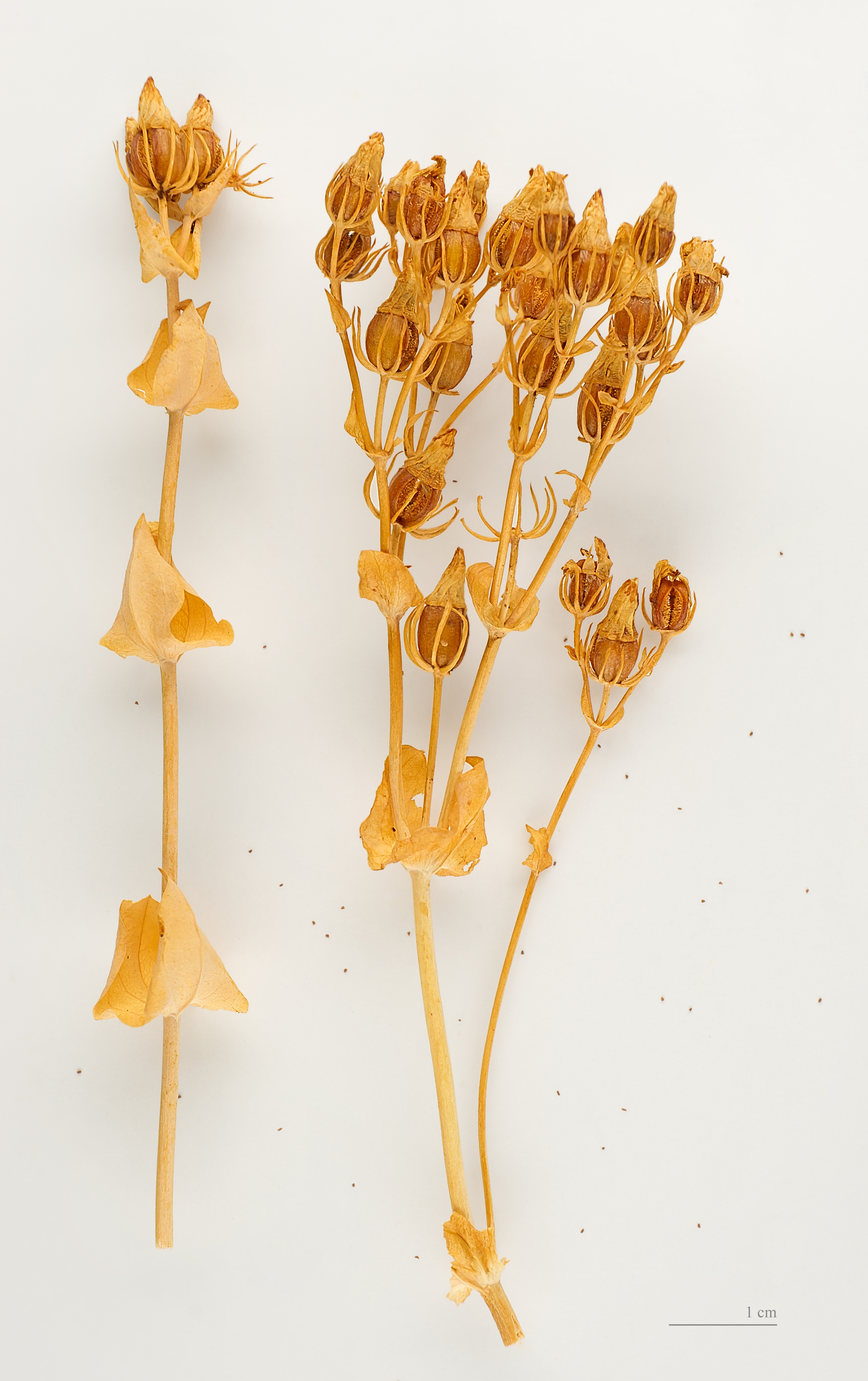 Casule at maturity, of Yellow-wort